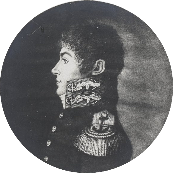 French explorer, navigator, geologist and geographer Louis Claude de Saulces de Freycinet (1779-1842). From an engraving of the original portrait in the possession of Baron Claude de Freycinet.